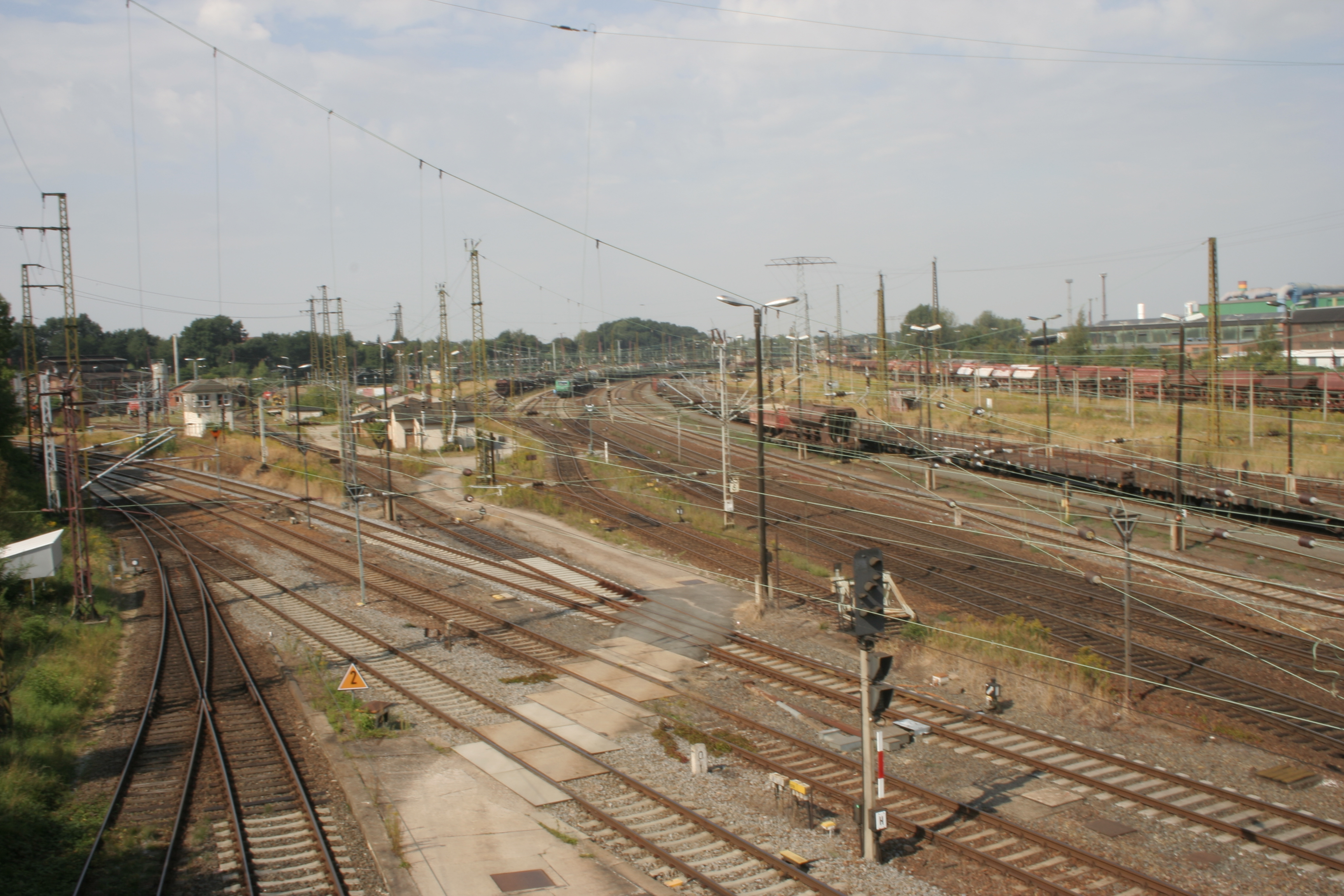 Riesa station, Saxony